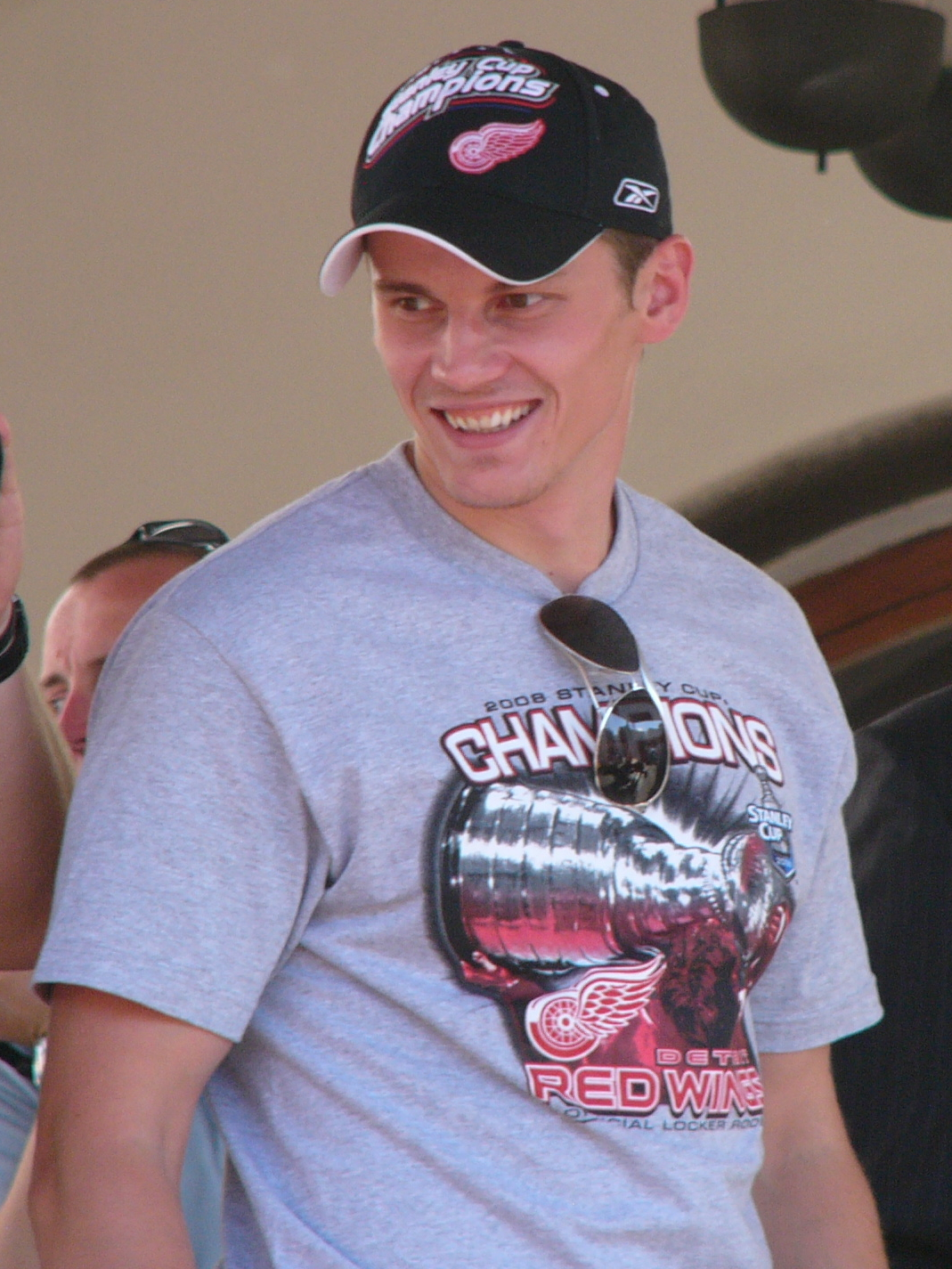 Slovakian professional ice hockey player Tomáš Kopecký.